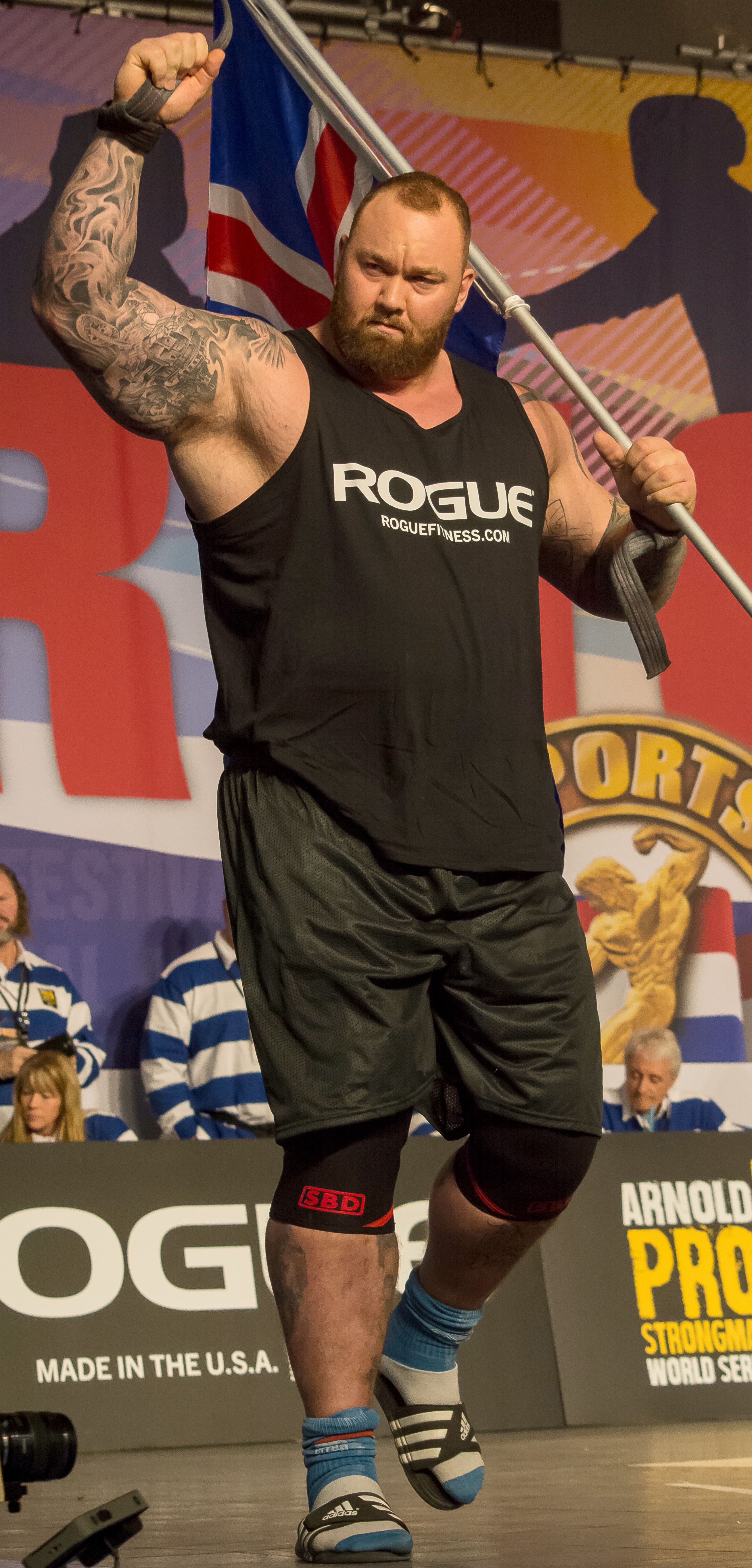 Aronald Classic Coulumbus, Ohio USA 2017